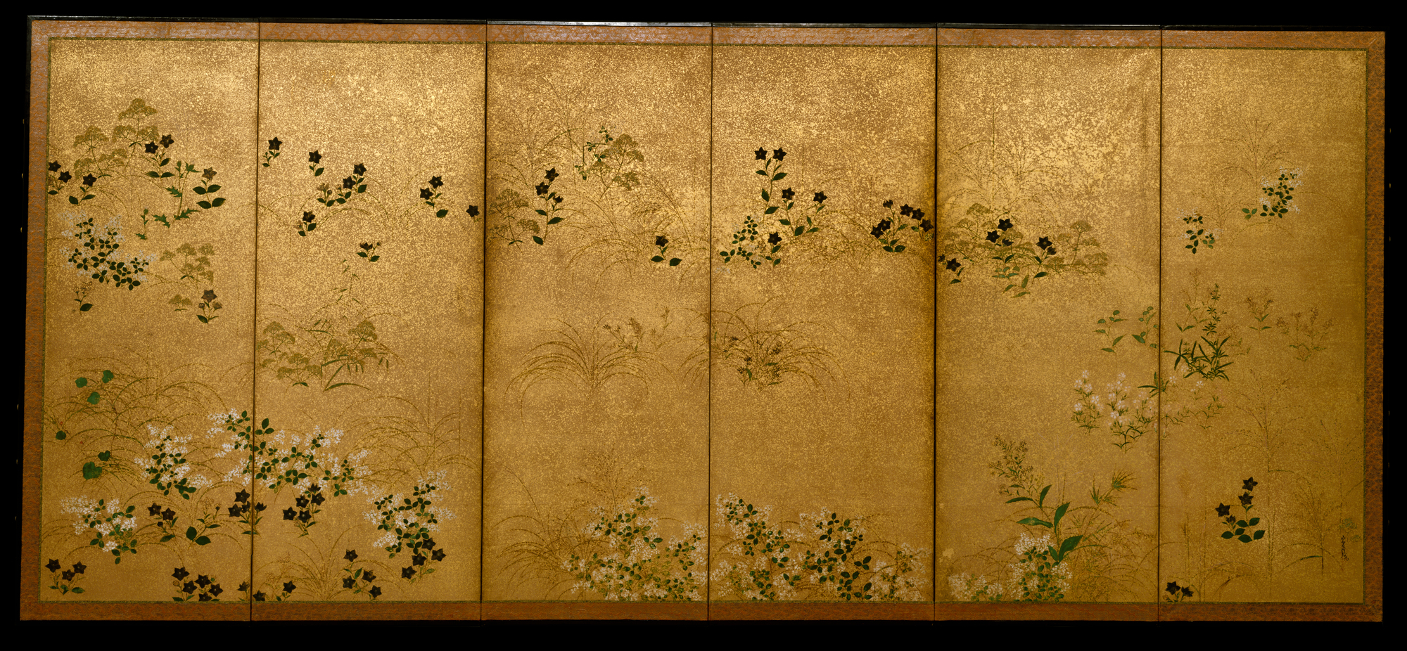 Japan; Folding screen; Screens